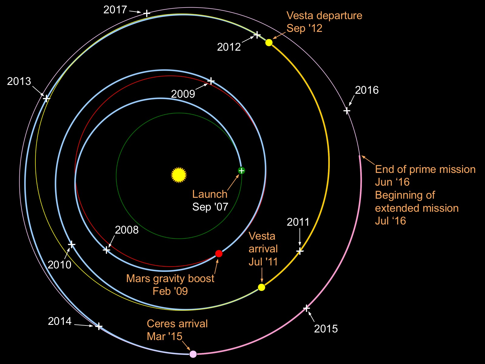 Dawn’s interplanetary trajectory (in blue). The dates in white show Dawn’s location every Sept. 27, starting on Earth in 2007. Note that Earth returns to the same location, taking one year to complete each revolution around the sun. When Dawn is farther from the sun, it orbits more slowly, so the distance from one Sept. 27 to the next is shorter.